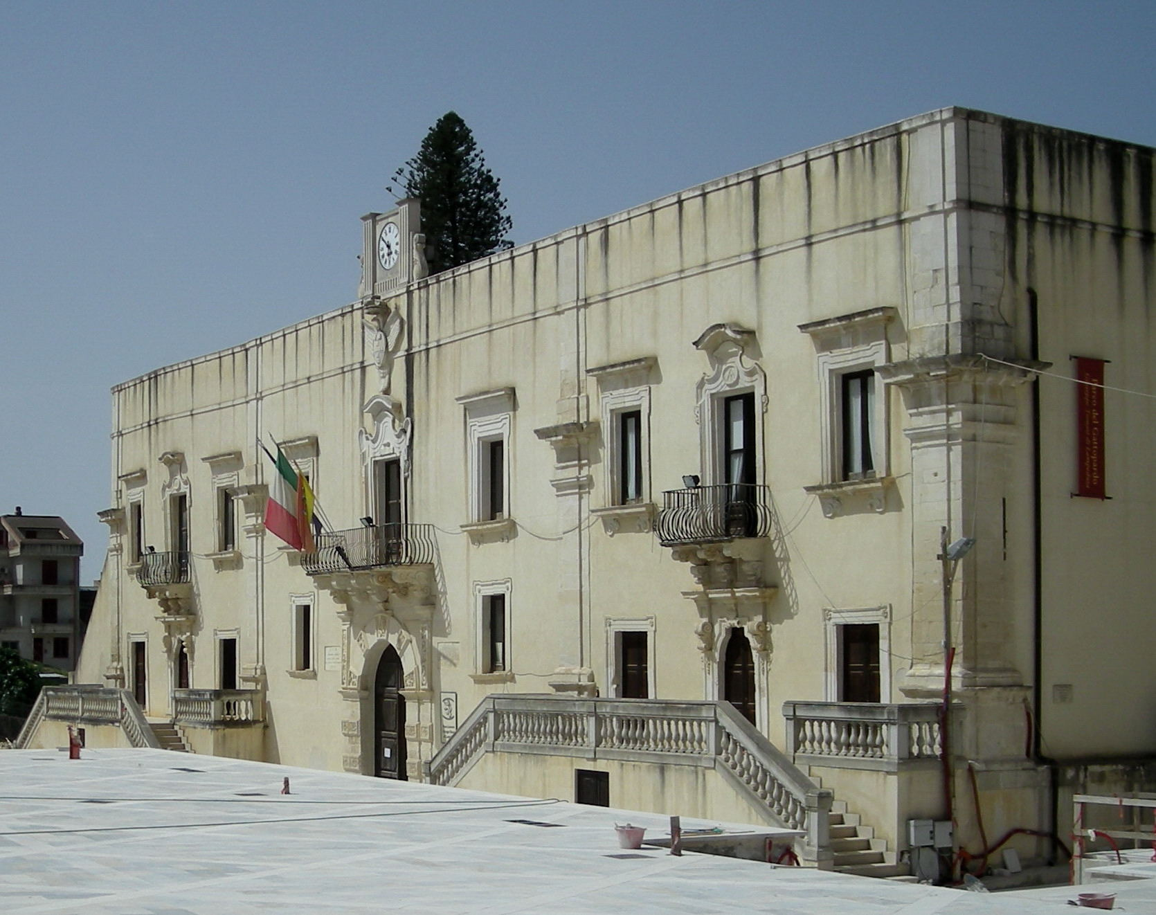 Palazzo Filangeri di Cuto in Santa Margherita di Belice on Sicily. Known as "Donnafugata" in the novel "The Leopard " by Giuseppe Tomasi di Lampedusa.